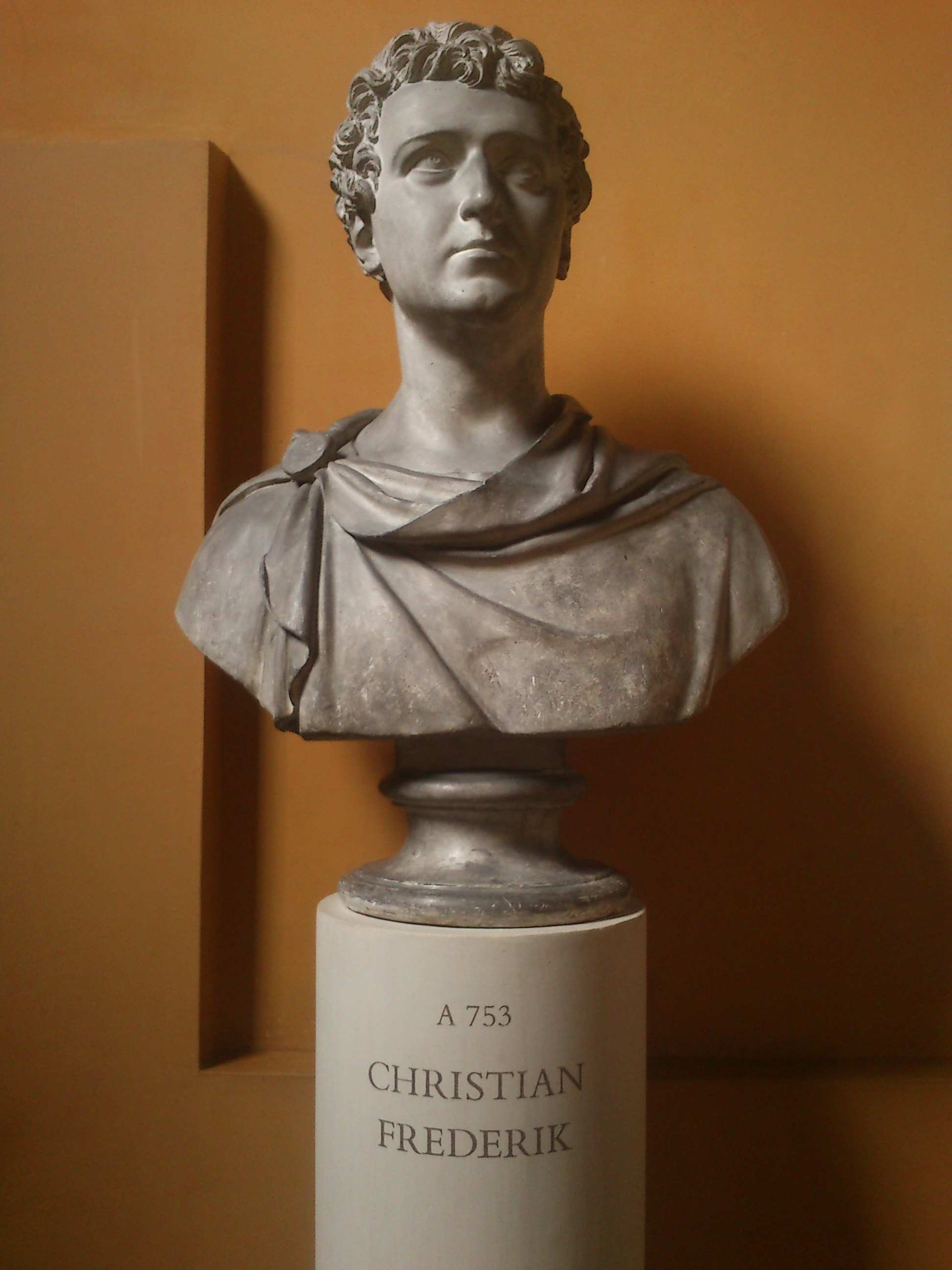 It's a bust made my Bertel Thorvaldsen. It was made when the prince and his wife was on a long trip to Rome (1818-1822). It is supposed to look like Christian the 8th of Denmark (Christian Frederik in norwegian).